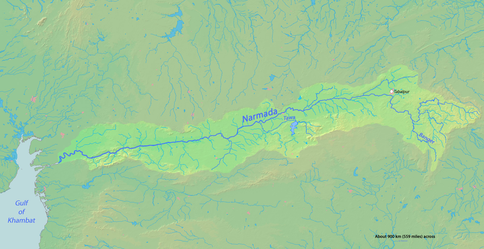 Map of the Narmada River, which drains part of north-central India to the Arabian Sea